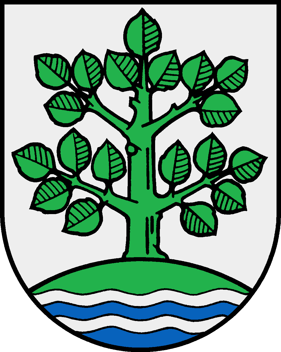 Coat of arms of the municipality Bokel in Schleswig-Holstein, Germany.